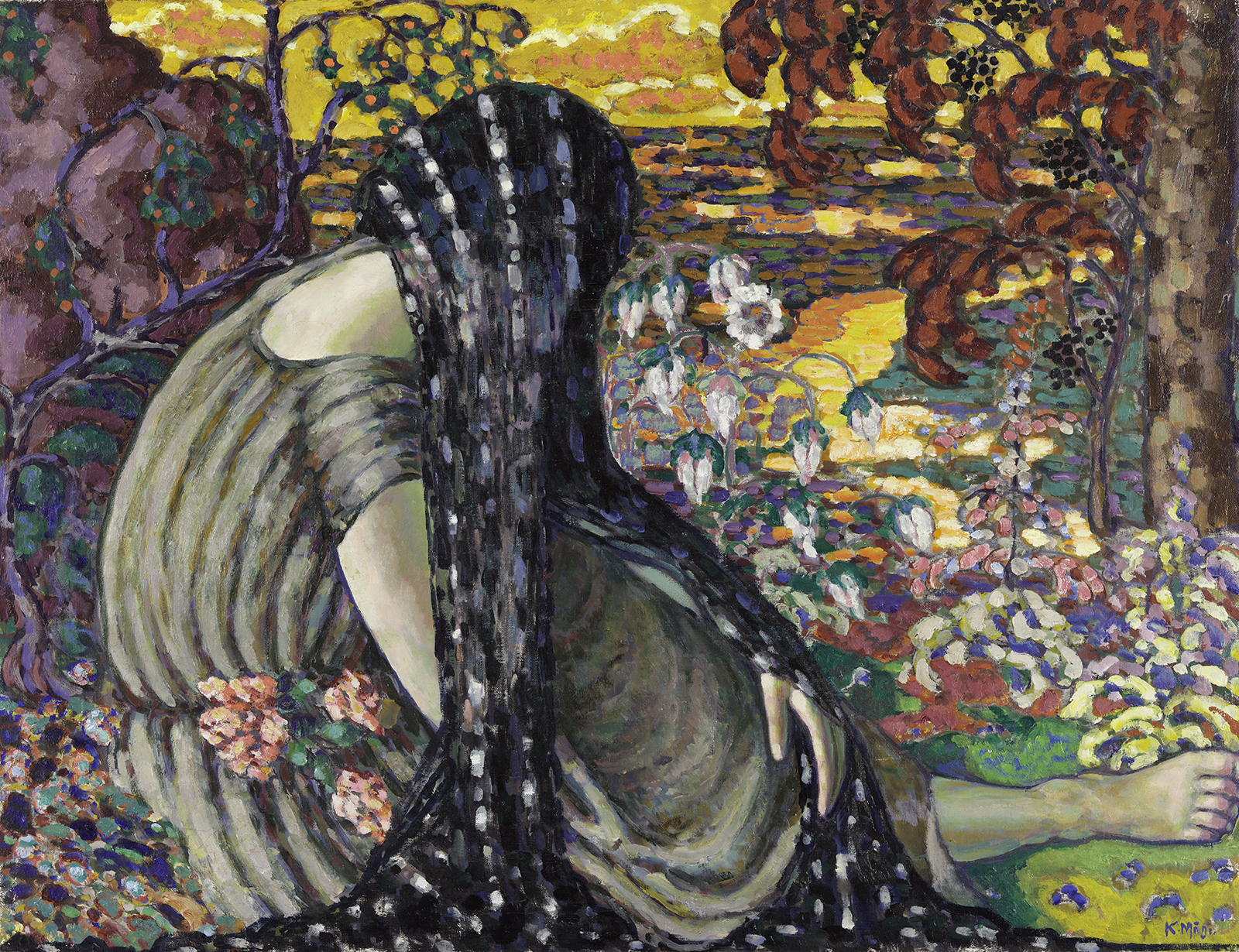 Konrad Mägi. Meditation (Landscape with a Woman). 1915-1916. Oli on canvas. EKM j 2493 M 2060.